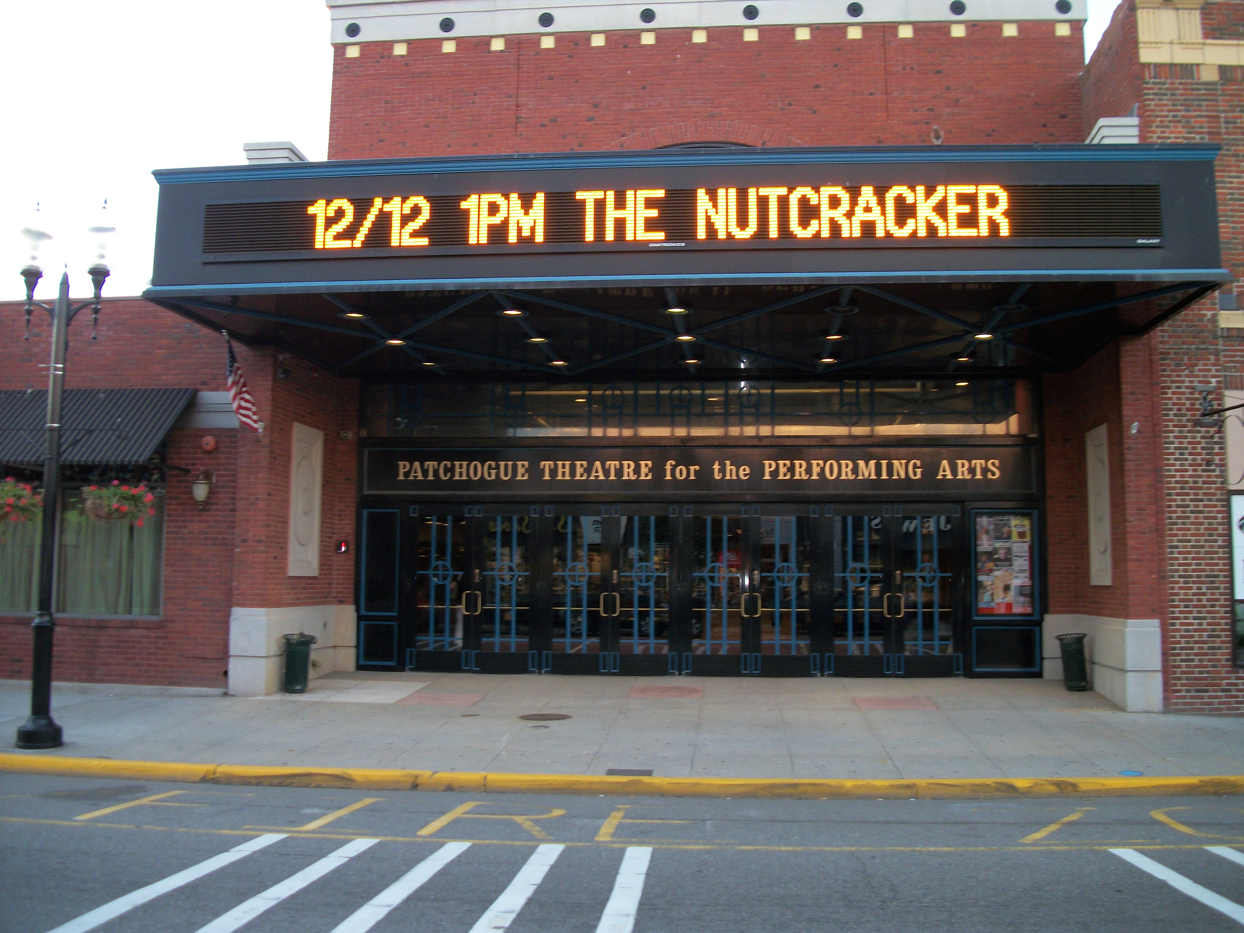 The Patchogue Theatre, as seen from across East Main Street in the Village of Patchogue, New York. One of the upcoming shows on the marquee is for The Nutcracker, which is to be shown on December 12, 2010, nearly six months after the day this pic was taken.